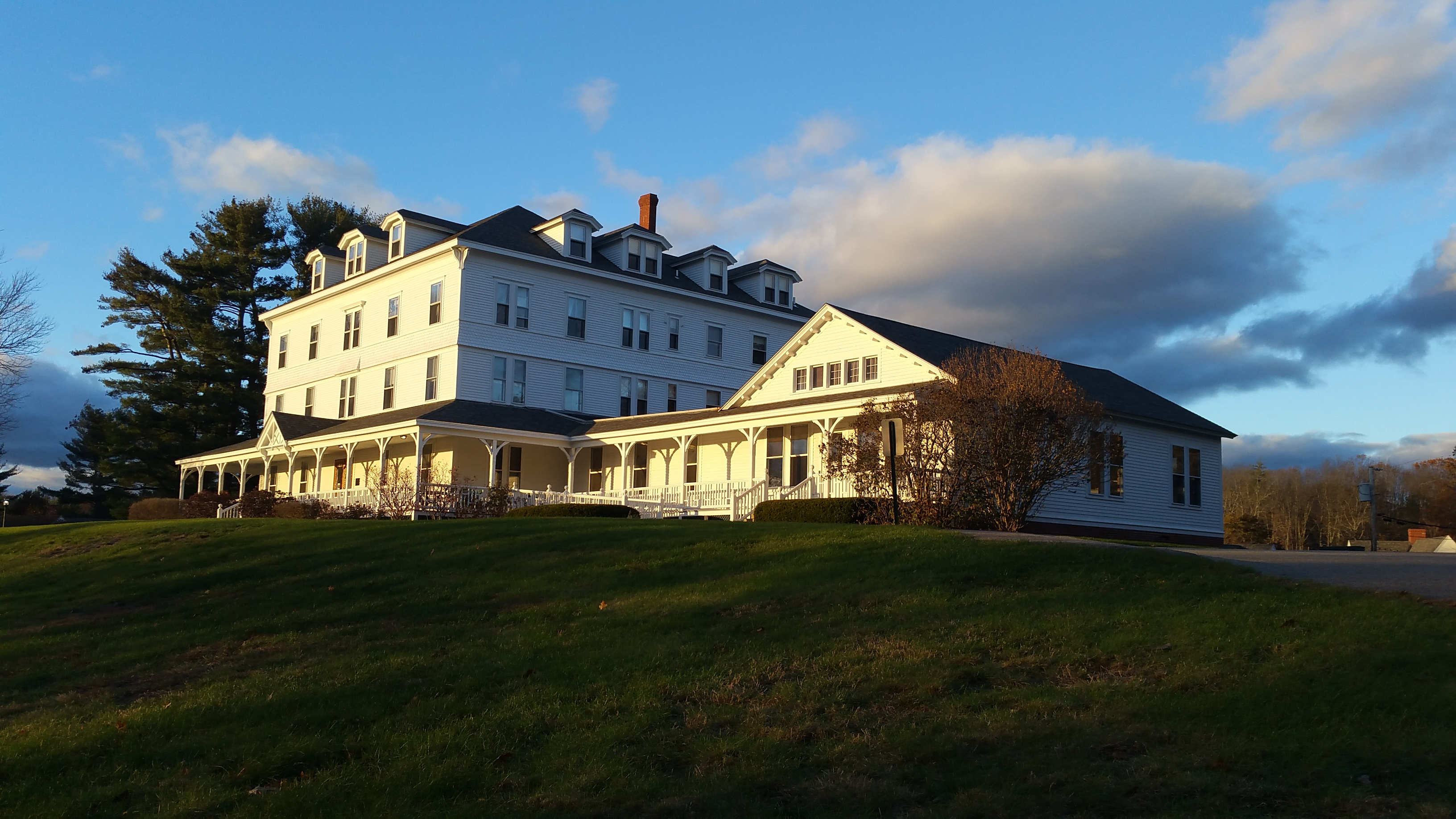 The inn at Green Acre Baha'i School.